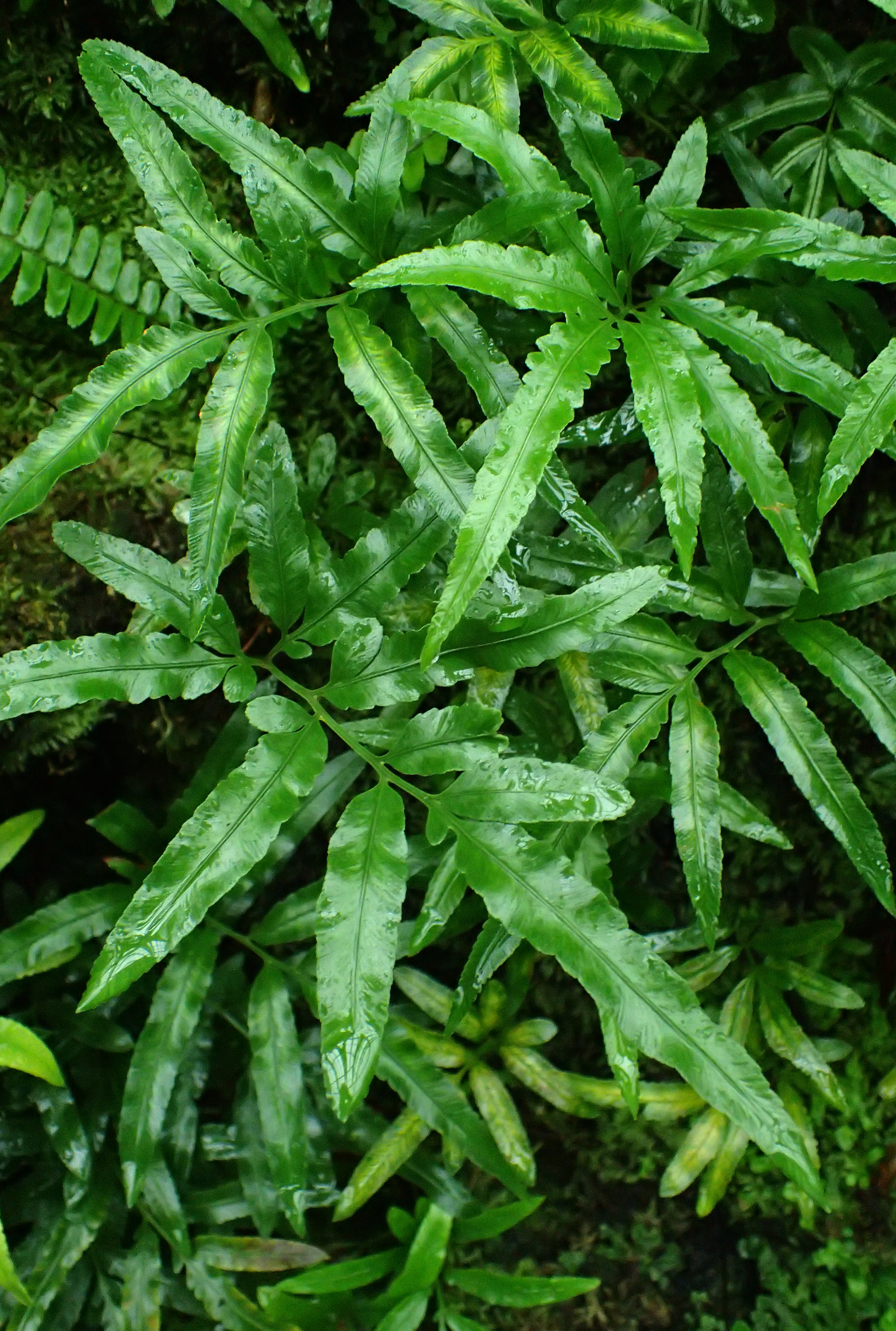 Scyphularia pentaphylla at Garfield Park Conservatory